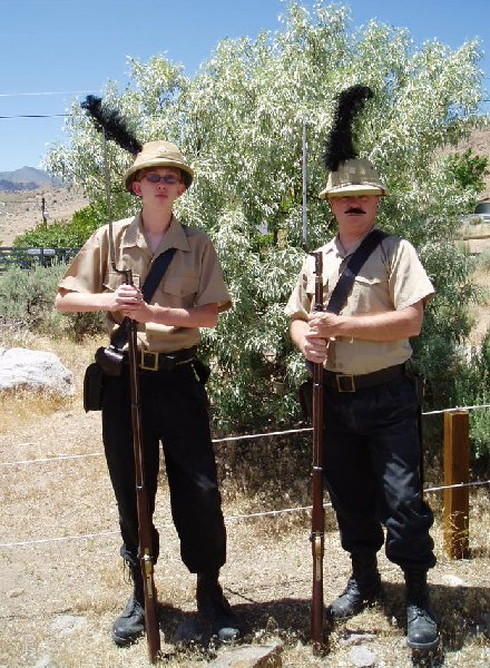 Republic or Molossia